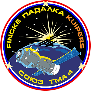 Soyuz TMA-4 Patch